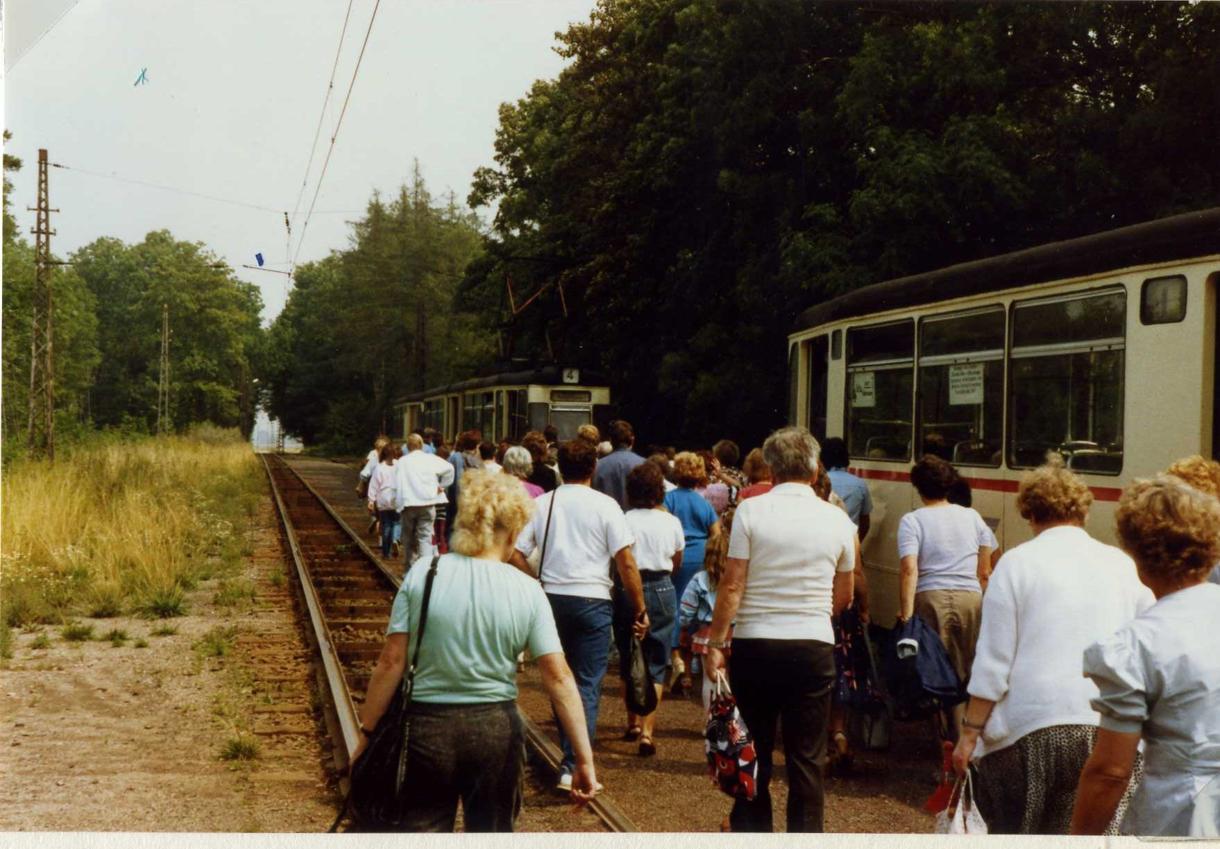 For some unknown reason everybody had to get out of our tram to Tabarz at Boxberg (Gotha) and transfer to the following vehicle.